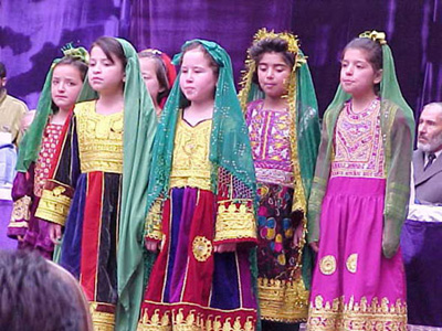 Afghanistan, March 2002 - Afghan girls sing at a celebration of International Women's Day, March 8. The ceremony took place at the Ministry of Women's Affairs, which USAID helped rehabilitate.